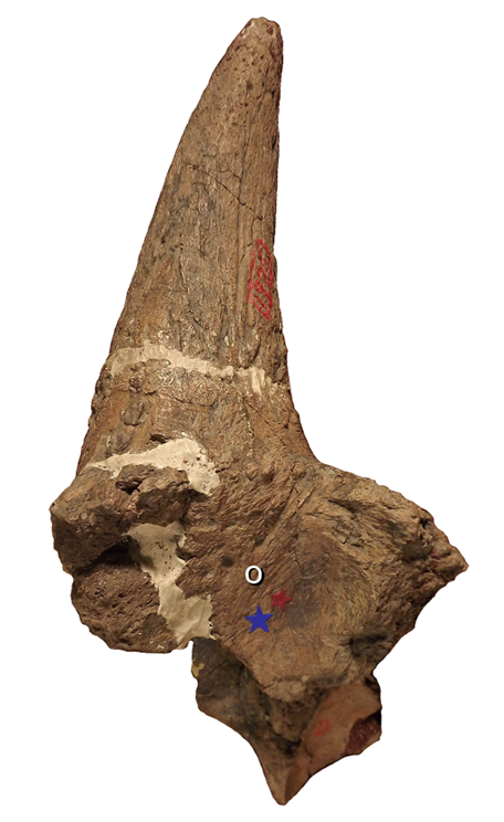 Left postorbital horncore of ‘Ceratops montanus’ (USNM 2411) in ventrolateral view.